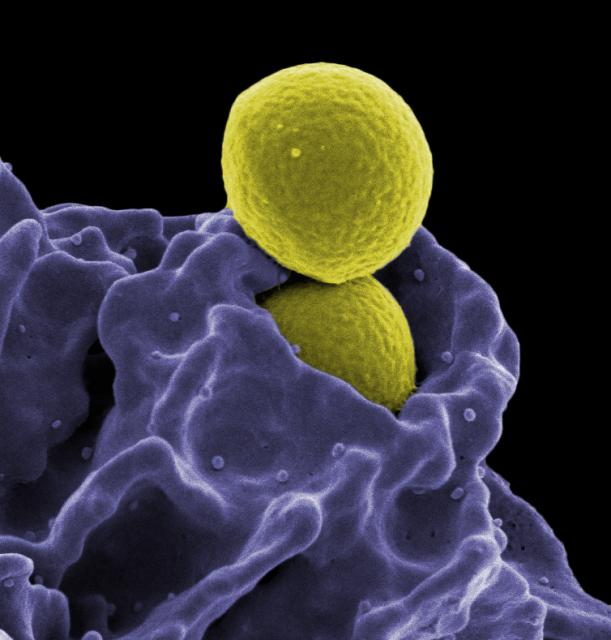 Scanning electron micrograph of MRSA bacteria (yellow) being ingested by a neutrophil (purple). Credit: NIAID